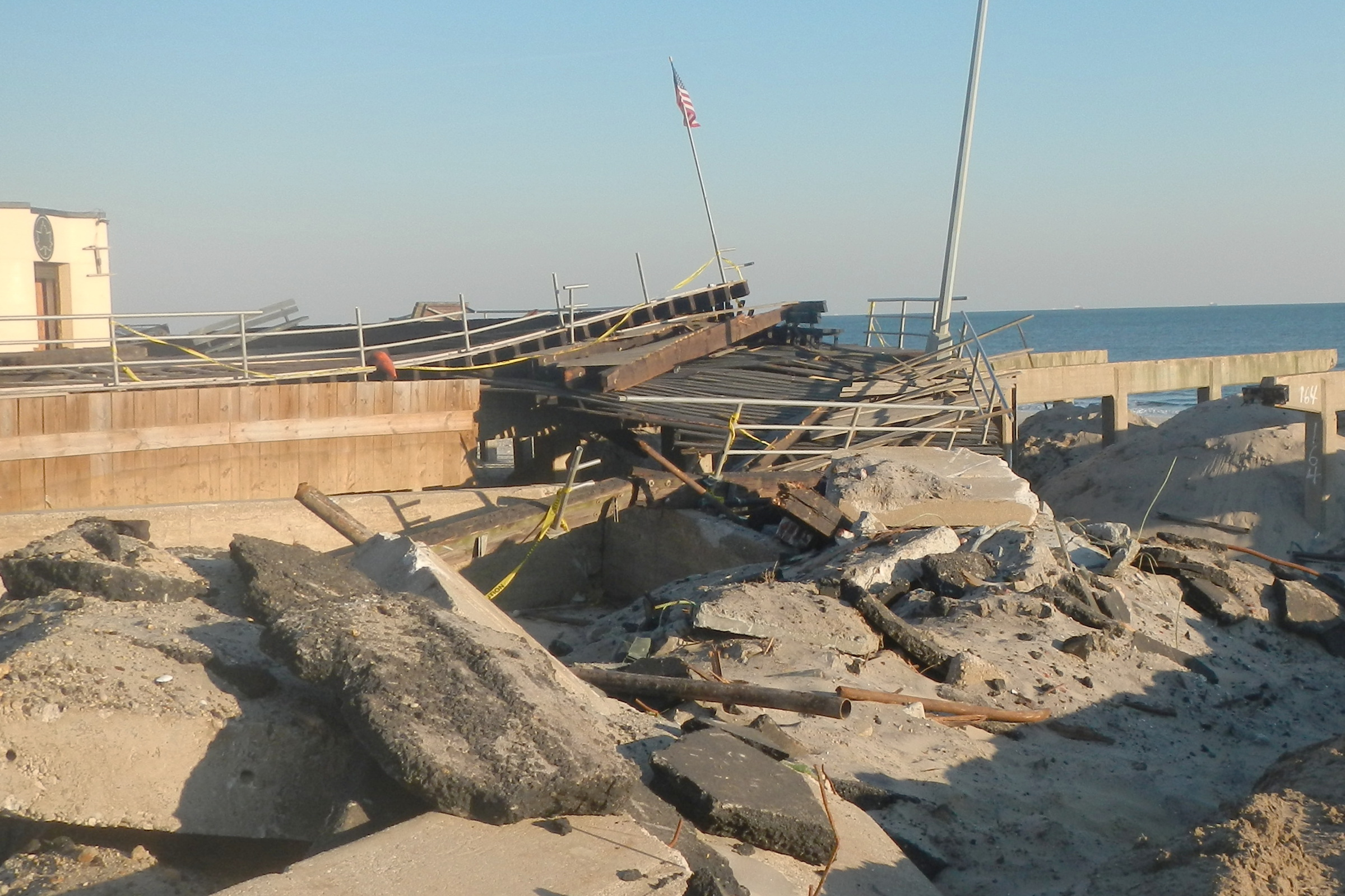 Looking east at boardwalk smashed by Sandy, on a sunny afternoon.